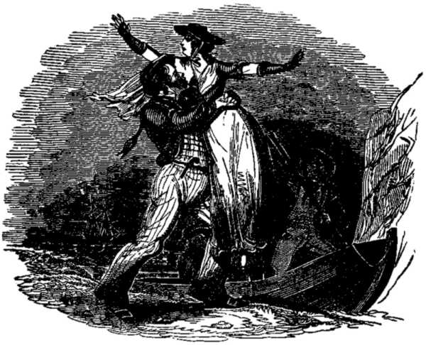 Charles Gibbs carrying the Dutch Girl on board his Vessel as depicted in The Pirates Own Book by Charles Ellms.